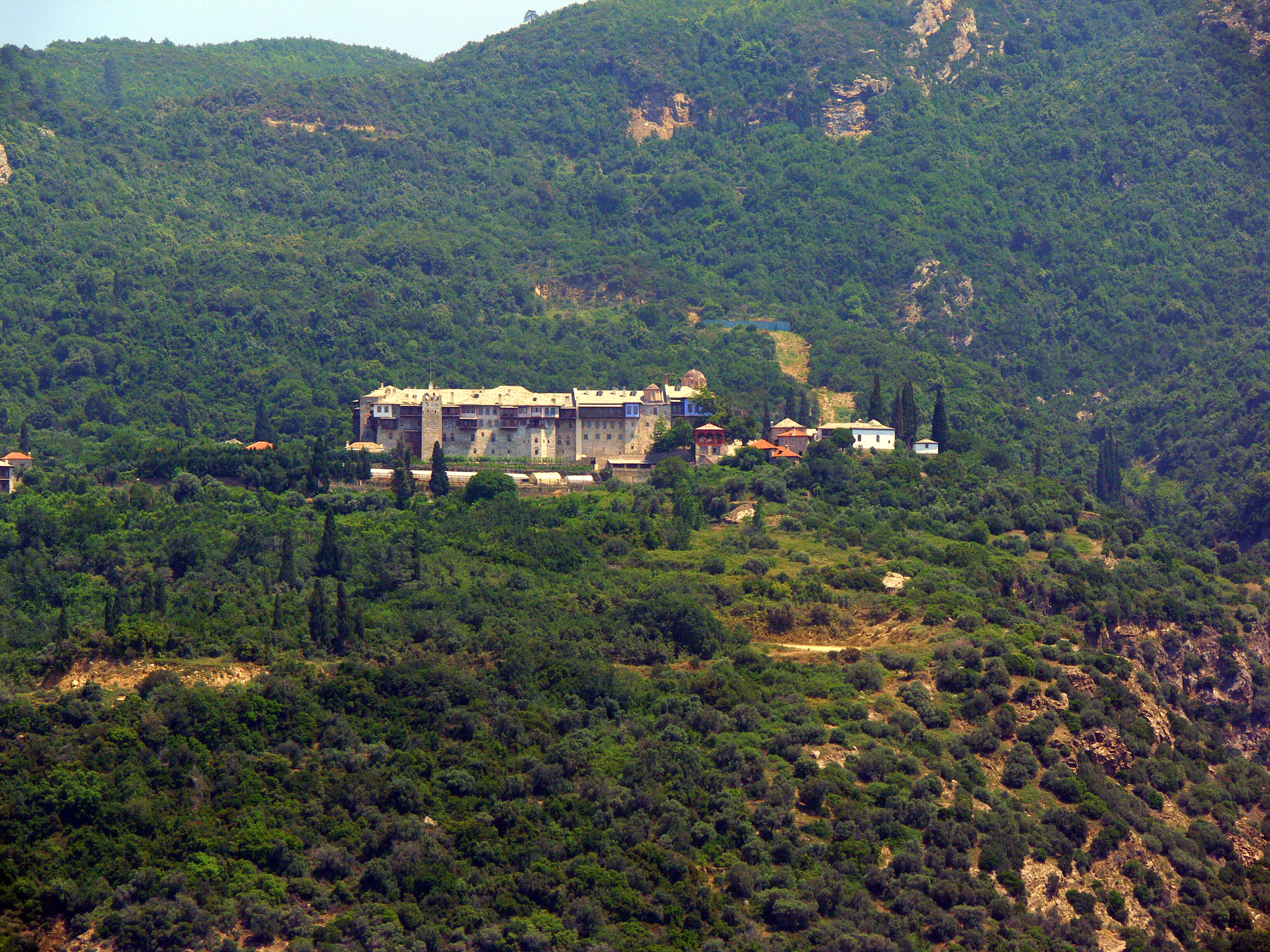 Kloster Chiropatamou